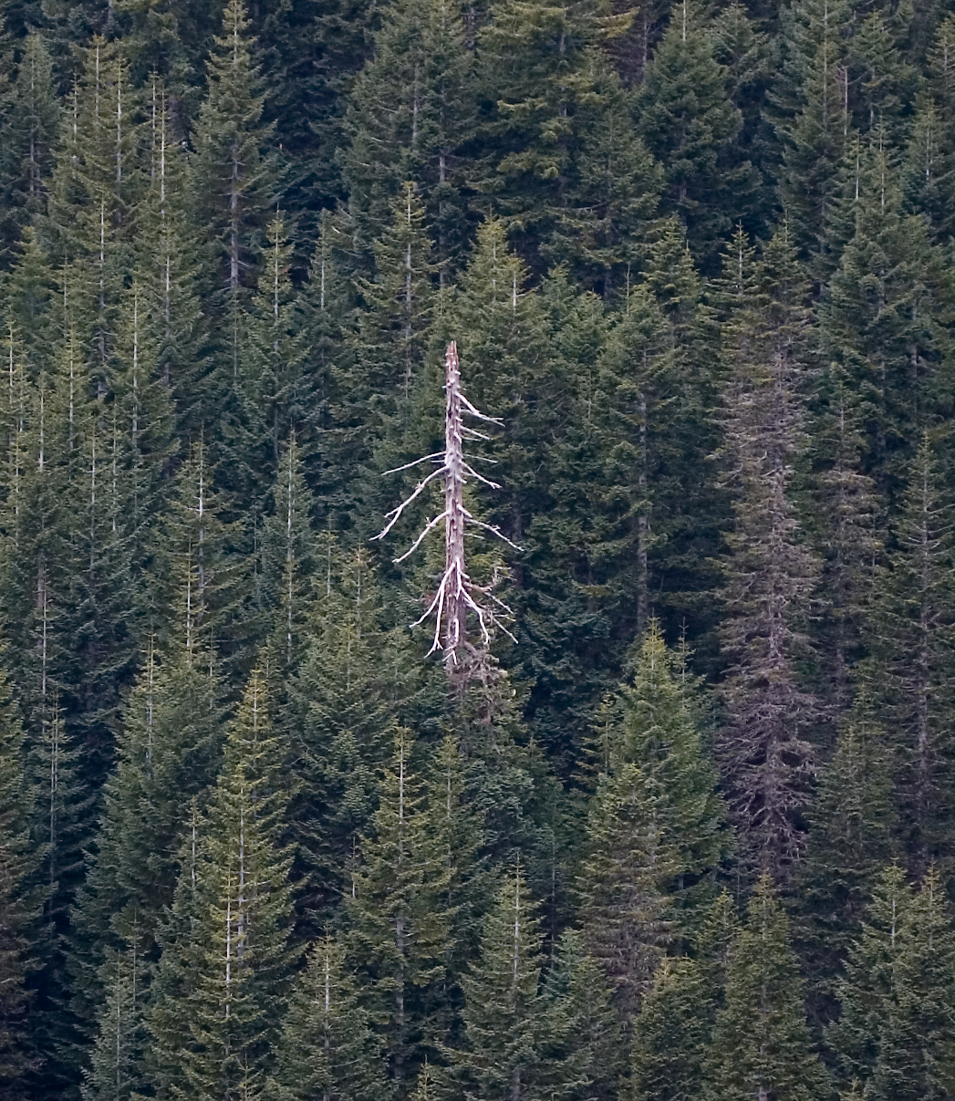 A snag amongst other living trees.